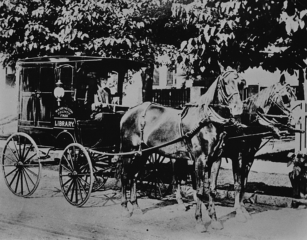 Joshua Thomas and the first? book wagon or bookmobile. It was reported that the horses names were Dandy and Black Beauty, and that they were stabled at Corderman's Livery Stable in Hagerstown. Washington County Free Library